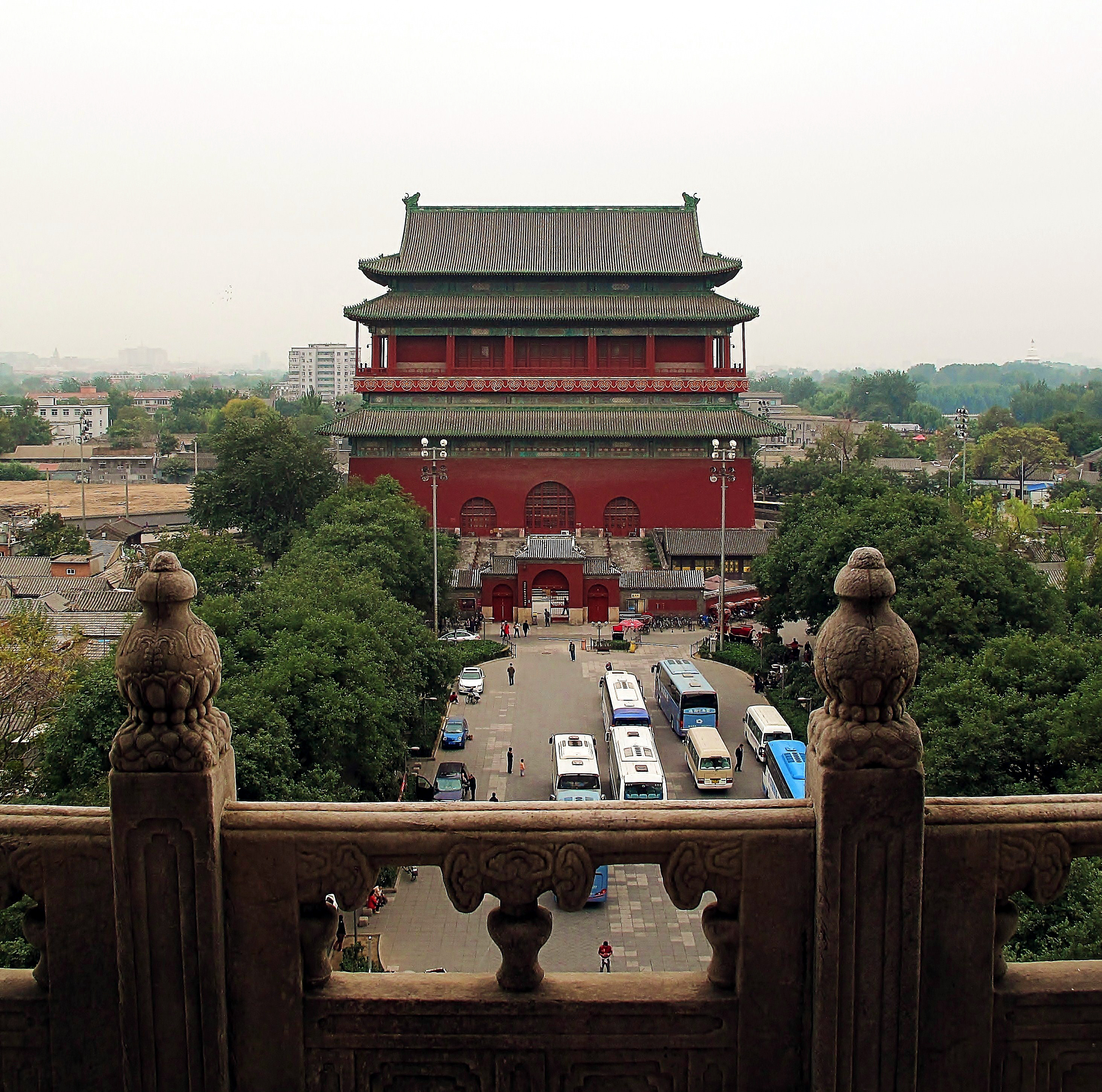 Beijing Drum Tower